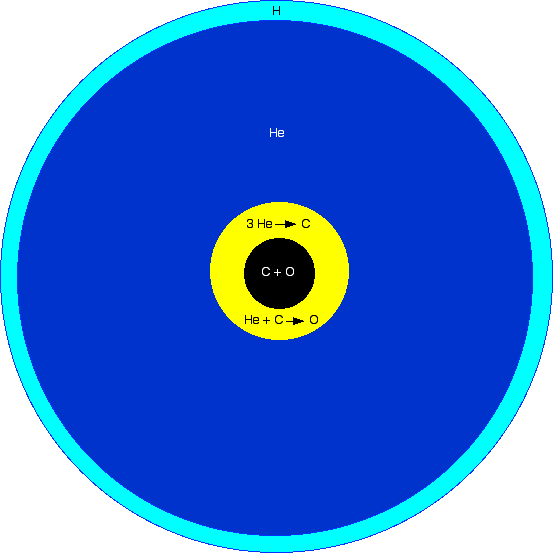 Not to scale schematic cross section of a hot subdwarf-O-Star.